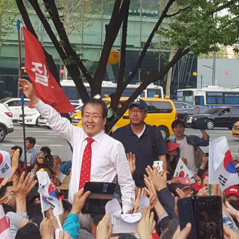 Hong Jun-pyo's presidential campaign at COEX, Seoul (April 30 2017)